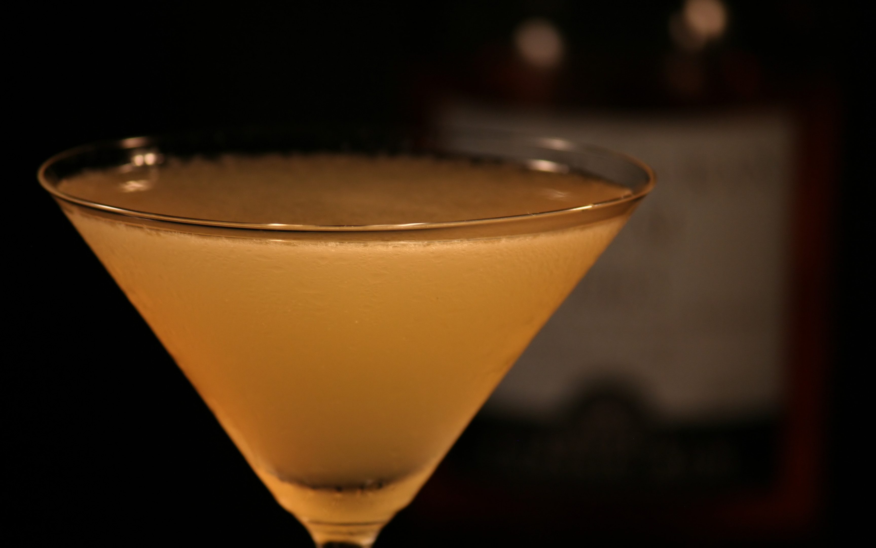 A Daiquiri made with cuban rum (Sancti Spiritus), produced by the independent bottler Bristol Spirits.